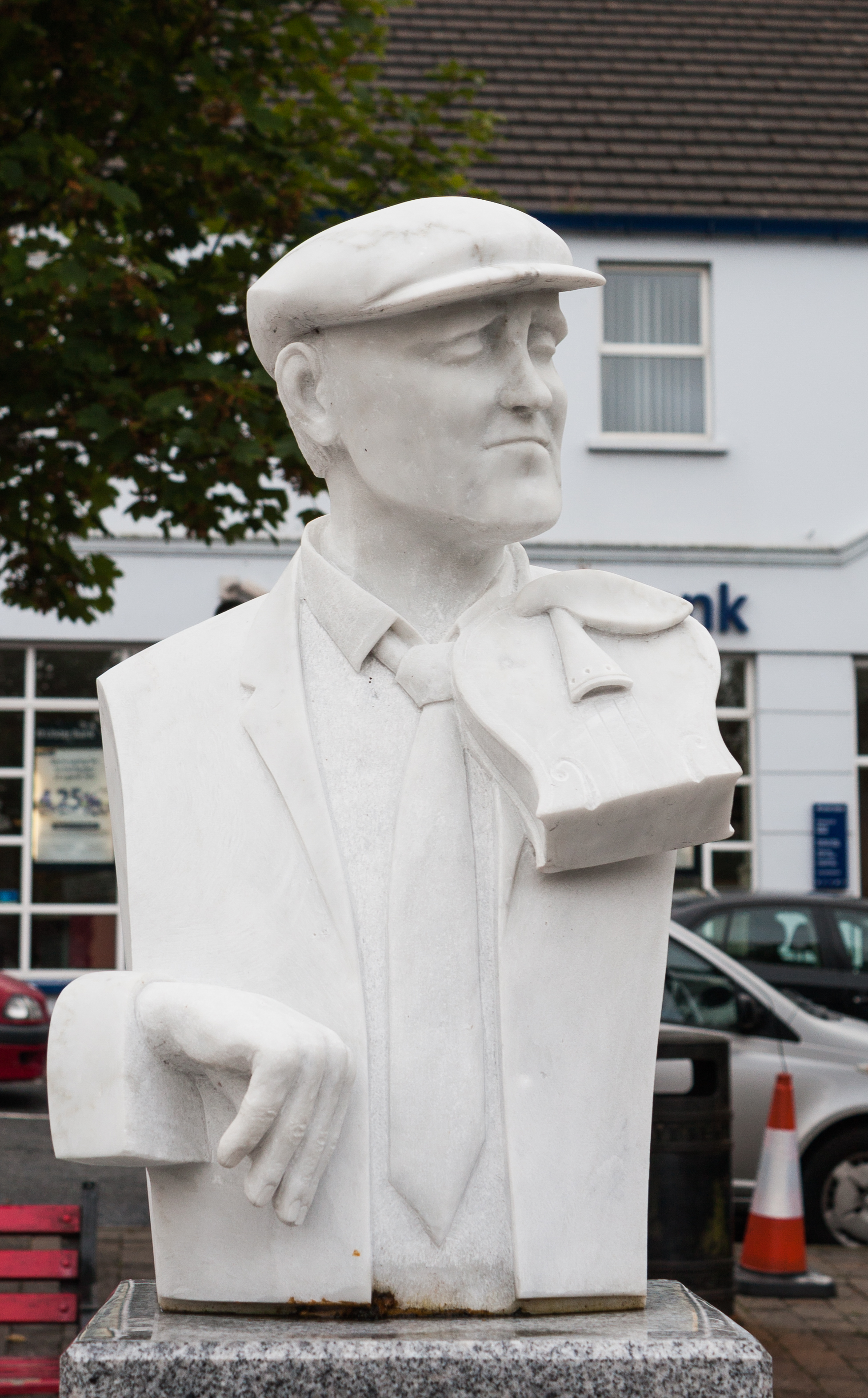 Sculpture of John Doherty, created by Redmond Herrity. The memorial was sponsored by Comhaltas and unveiled at 5th anniversary of the John Doherty Festival in 2013. (See here and here.)